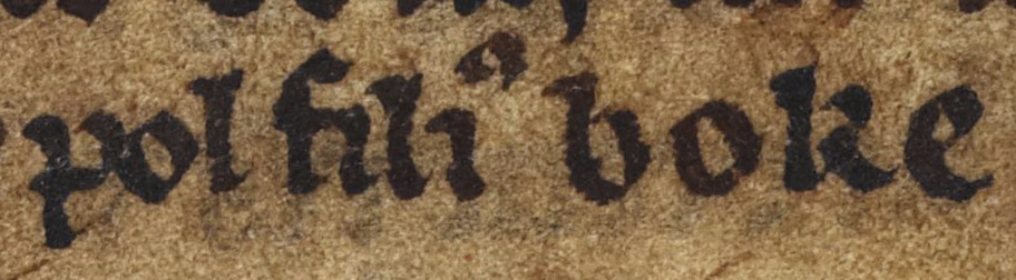 An excerpt from folio 42v of British Library Cotton MS Julius A VII (the Chronicle of Mann). A transcription of this excerpt appears on page 86 of: Munch, PA; Goss, A, eds. (1874). Chronica Regvm Manniæ et Insvlarvm: The Chronicle of Man and the Sudreys. Vol. 1. Douglas, IM: Manx Society. The excerpt reads in: "Pol filius Boke". The exceprt refers to Páll Bálkason (died 1231).